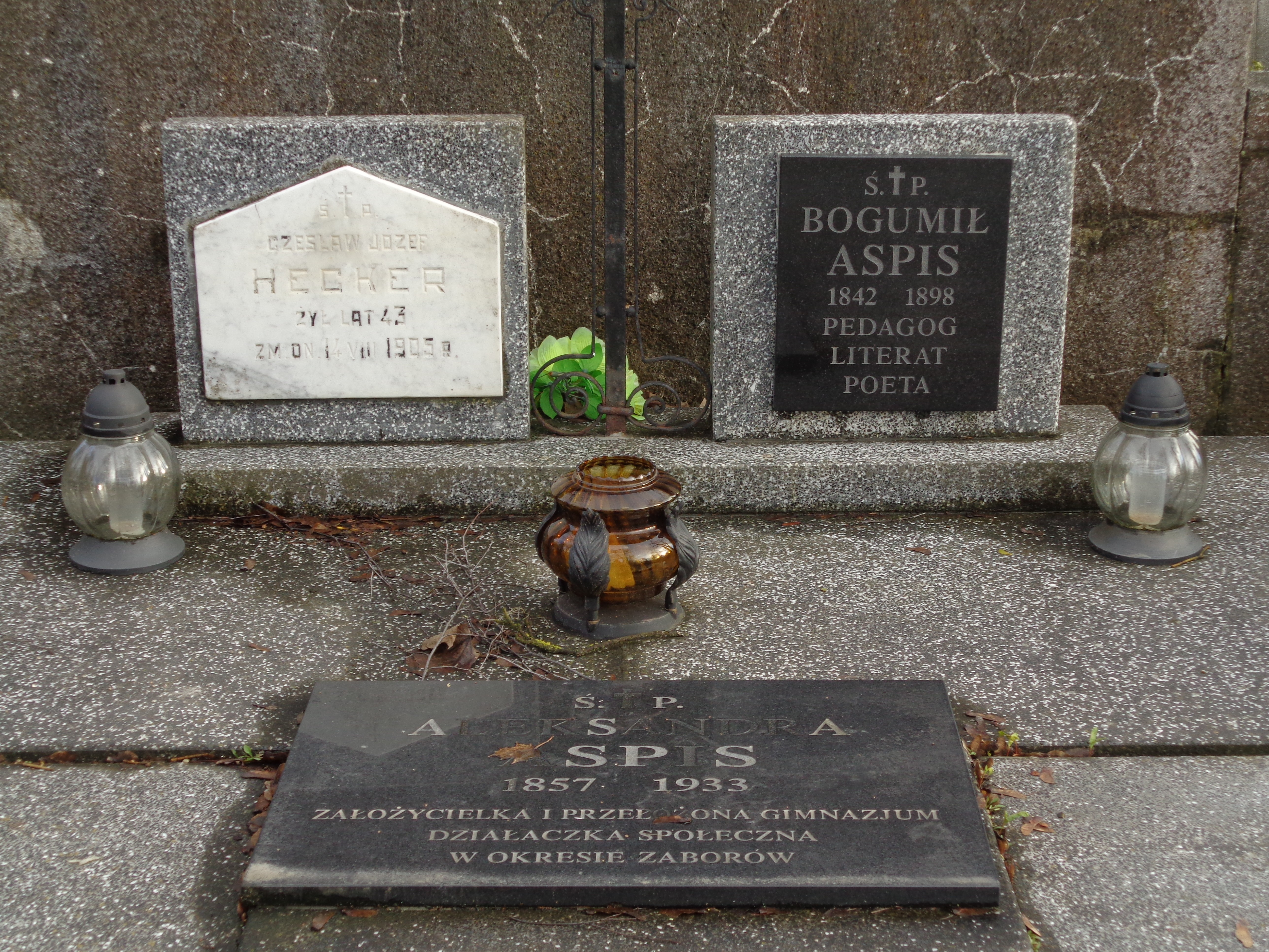 Grave of Aspis family on Communal Cemetery in Włocławek.